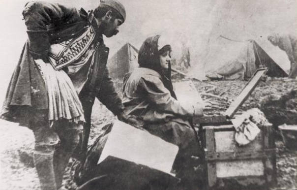 Greek painter Thalia Flora-Karavia during the Balkan war